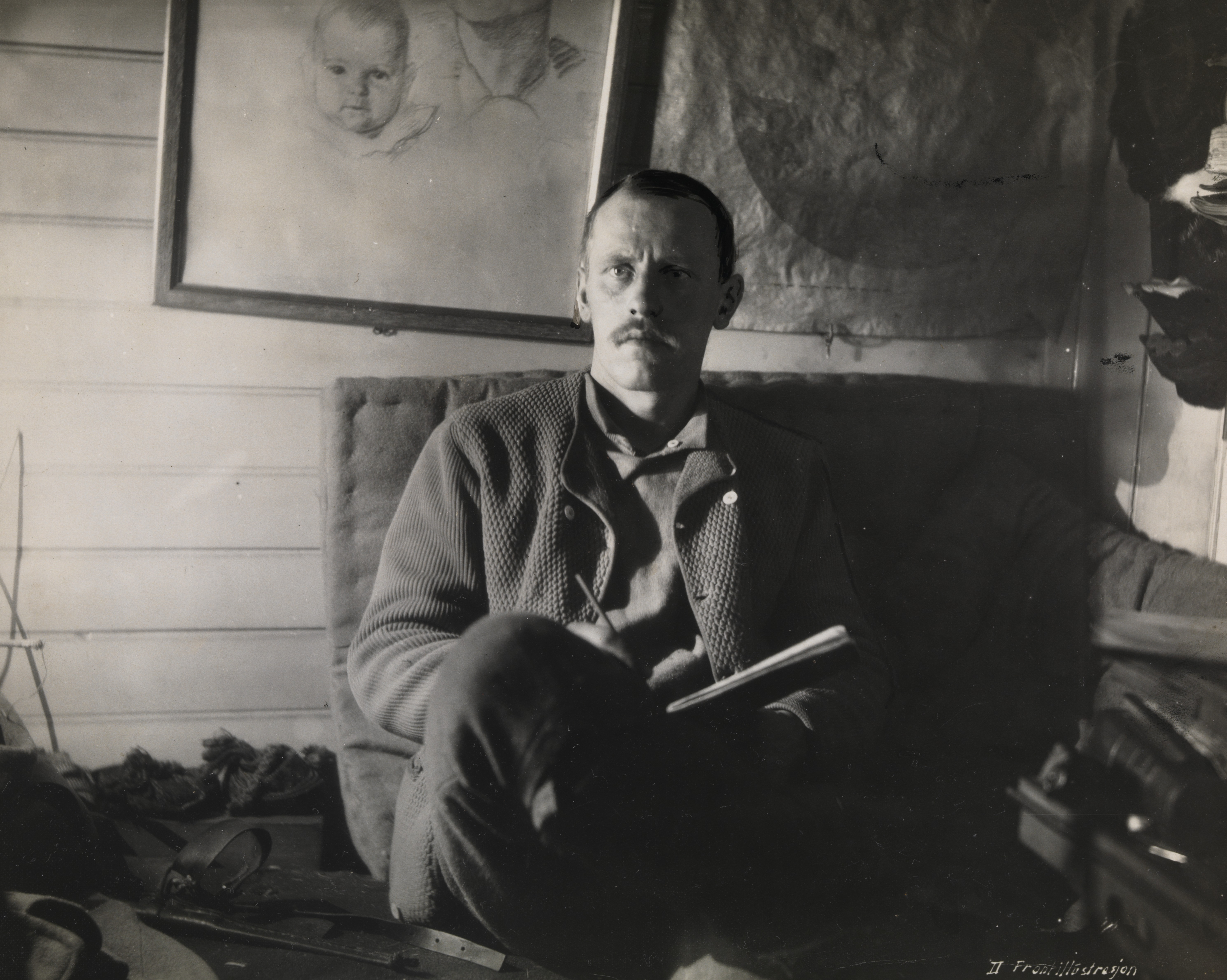 Fridtjof Nansen in his cabin on board the «Fram». One of the pictures from the expedition with arctic ship toward the North Pole in the period June 24, 1893 to August 13, 1896. According to the plan, the ship was to drift in the ice with the ocean current from the coast of Siberia across the North Pole to Greenland. The goal, to get to the North Pole, was not reached, but the scientific evidence gathered was of great importance to arctic research.